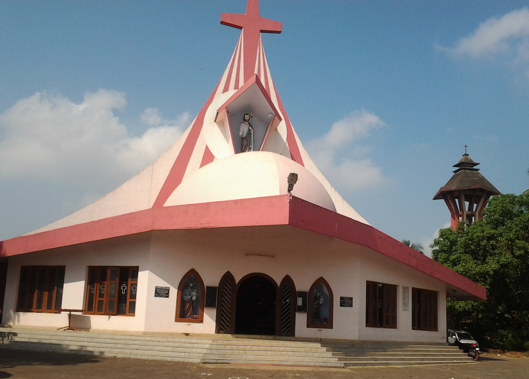 St. Joseph's Church, Bajpe